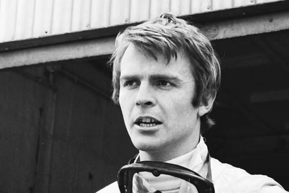 A black and white photo of Max Mosley in 1969.